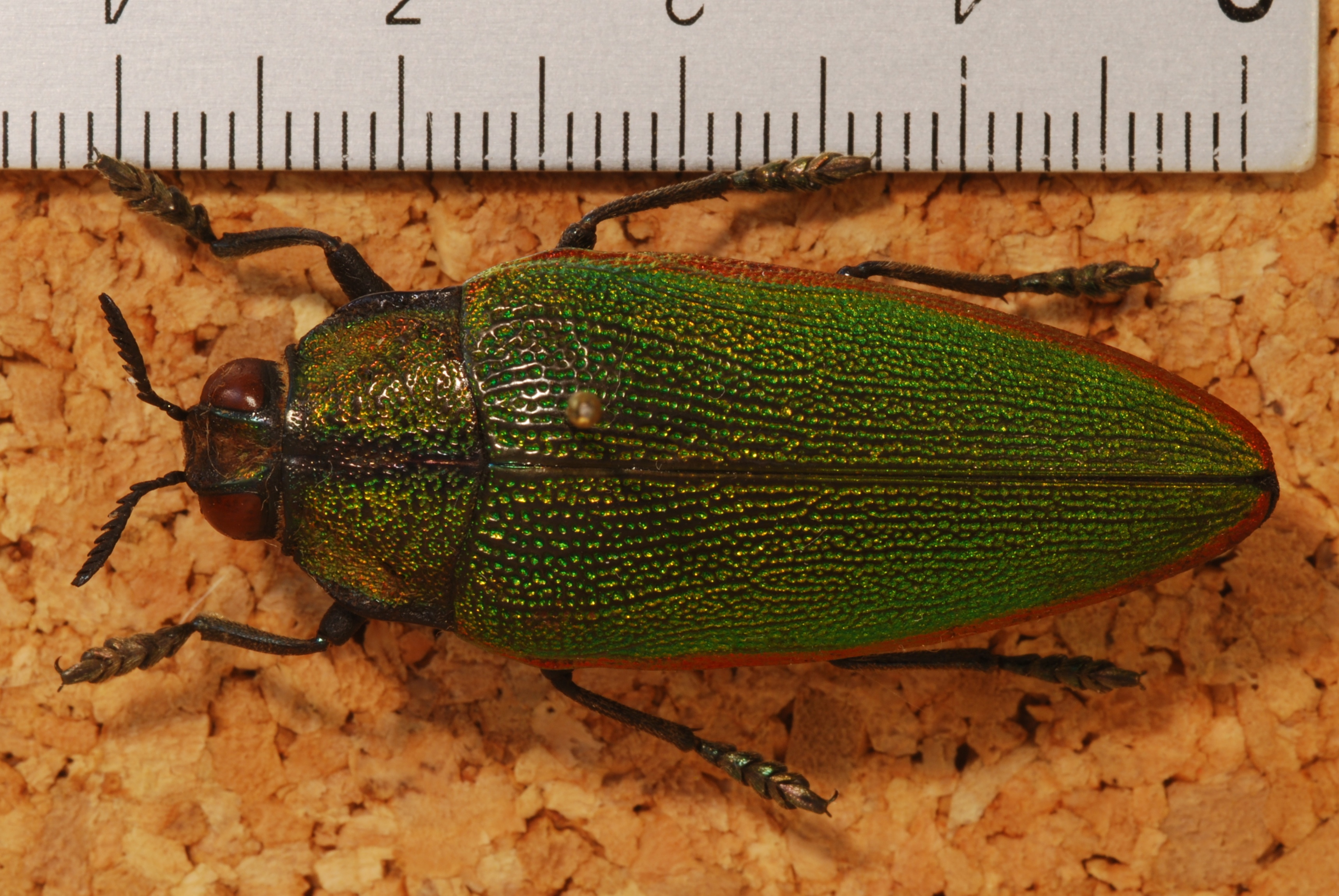 Pamora, Nebbi District, UGANDA